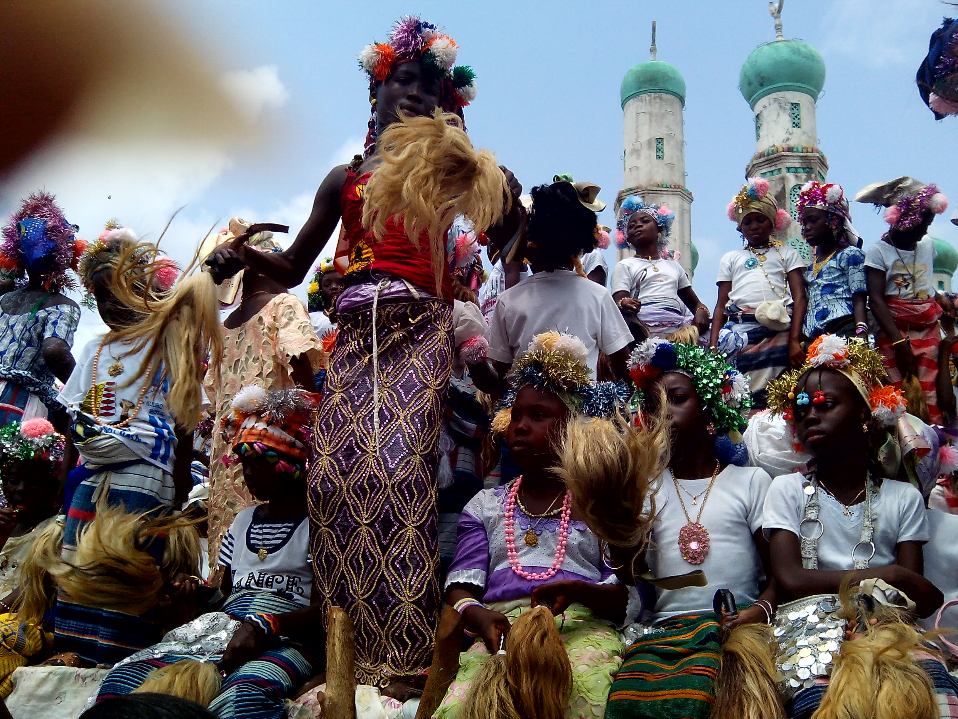 Kourbi Celebrations in Bondoukou